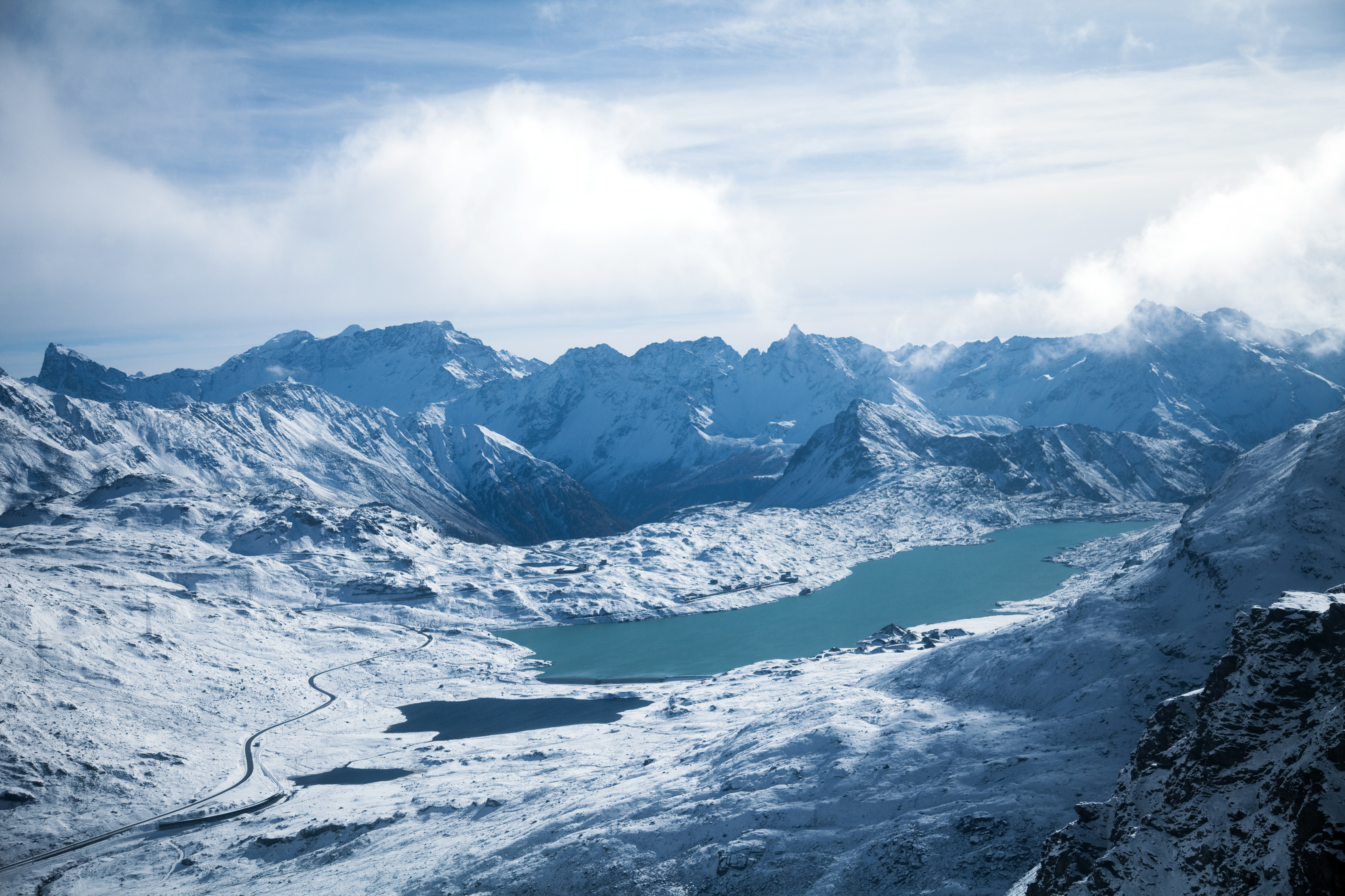 View of Lago Bianco from the cable car that goes to the Diavolezza.